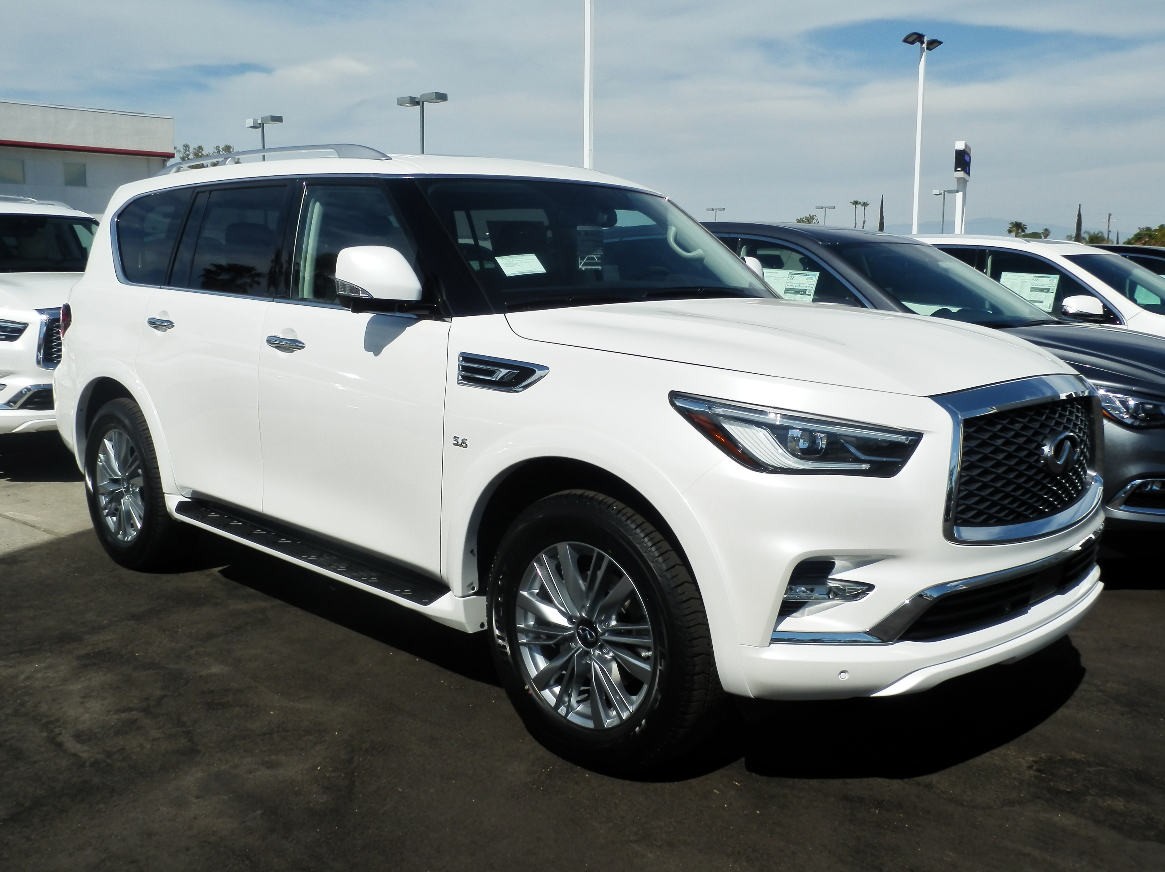 Infiniti QX80 in Bakersfield